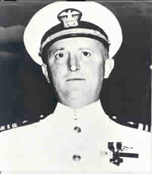 Posthumous Medal of Honor awardee. Ordered the USS Growler to dive while he was wounded on the bridge. Photographed after being awarded the Navy Cross for his "extraordinary heroism" while serving as Commanding Officer of USS Growler (SS-215) from 20 June to 17 July 1942. Official U.S. Navy Photograph, National Archives collection